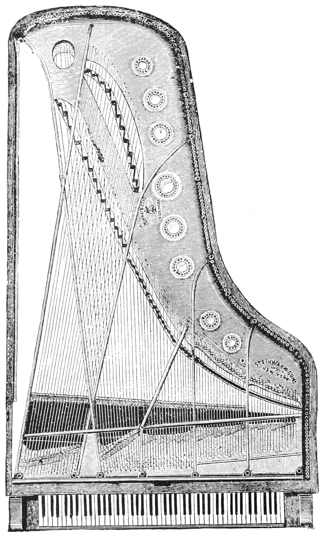 Steinway grand piano with the fan shaped strings disposition